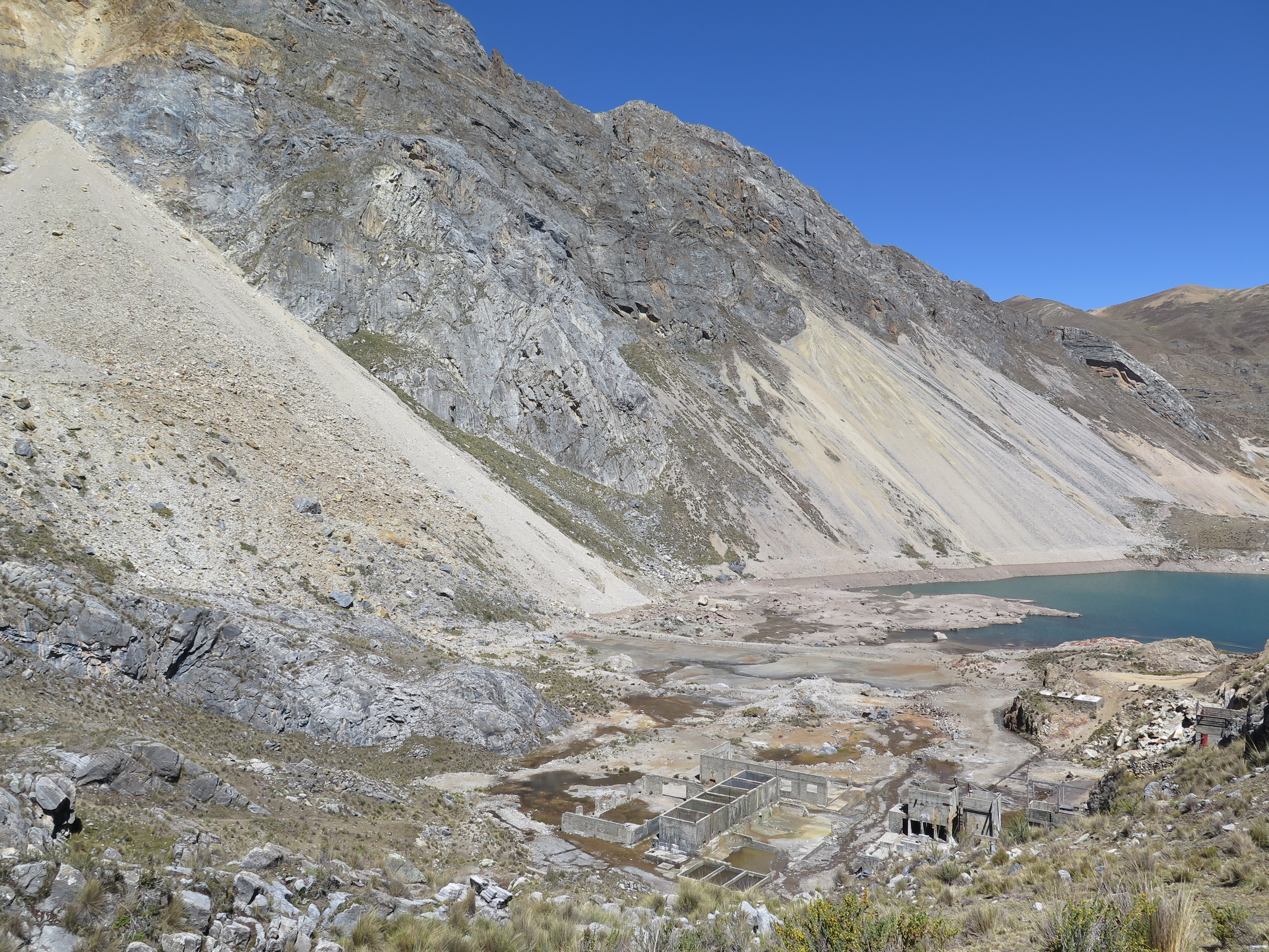 Partial view of the Yanawayin Lake. To the left: partly reworked rocks of the landslide that destroyed in 1971 most of the Chungar Mine facilities (in part still visible in the picture). Picture looking SW